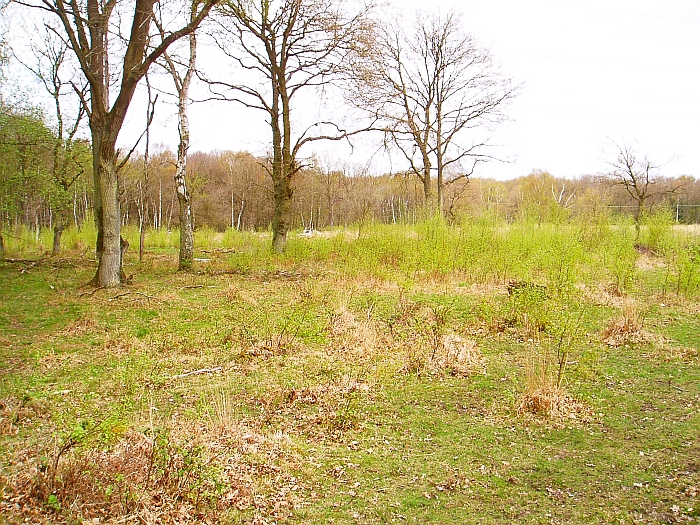 Hook common, Hart.